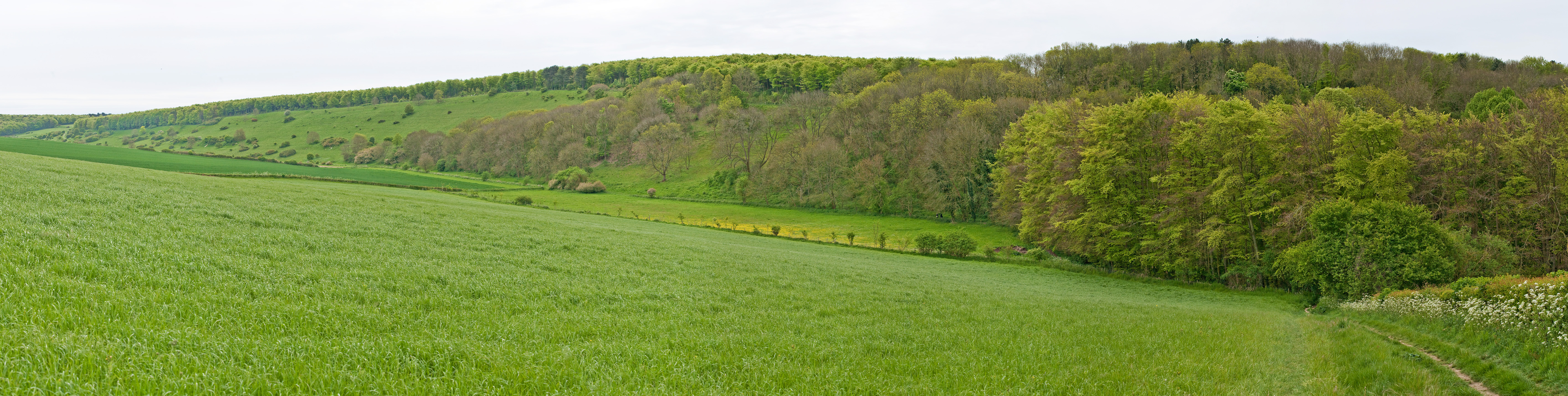 A panoramic view of the path along the South Downs Way in the Cuckmere Valley, East Sussex, England.